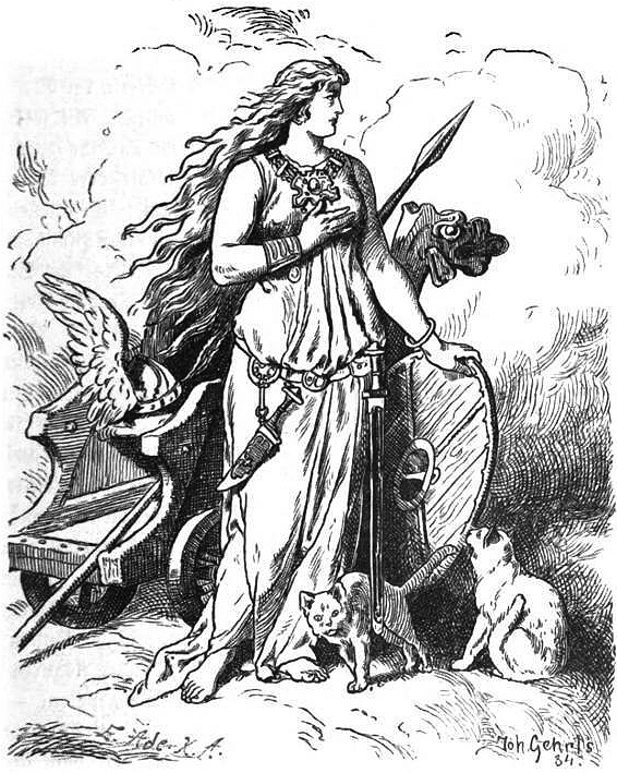 "Freya" (1901) by Johannes Gehrts. The goddess Freya rests her hand upon a shield.